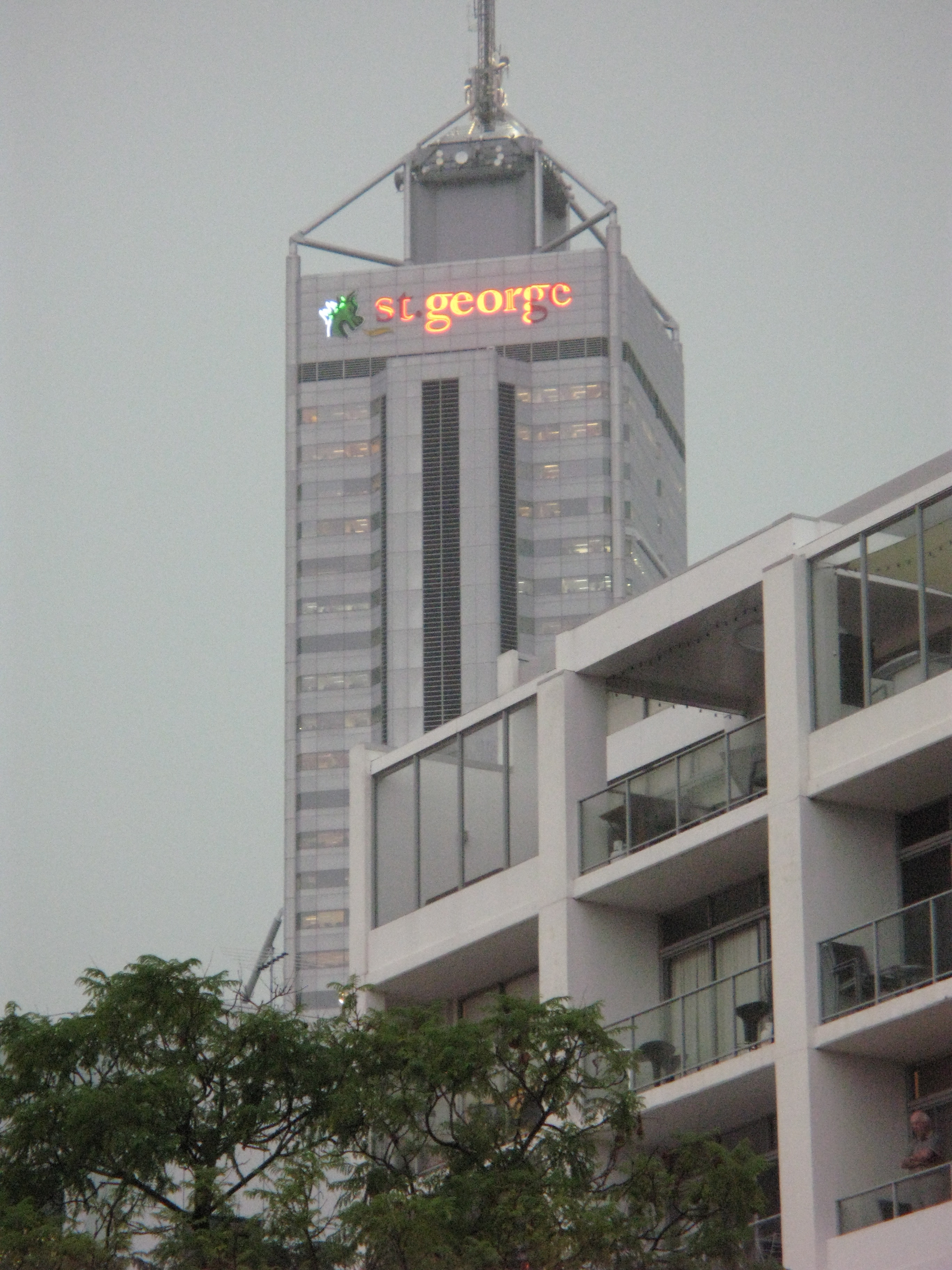 Damage to a sign on a skyscraper in Perth city, caused by hail that fell during the 2010 Perth storms. Photo taken by myself in March 2010.